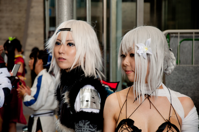 Taken on September 17, 2011 Nikon D90